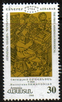 Stamp of Armenia